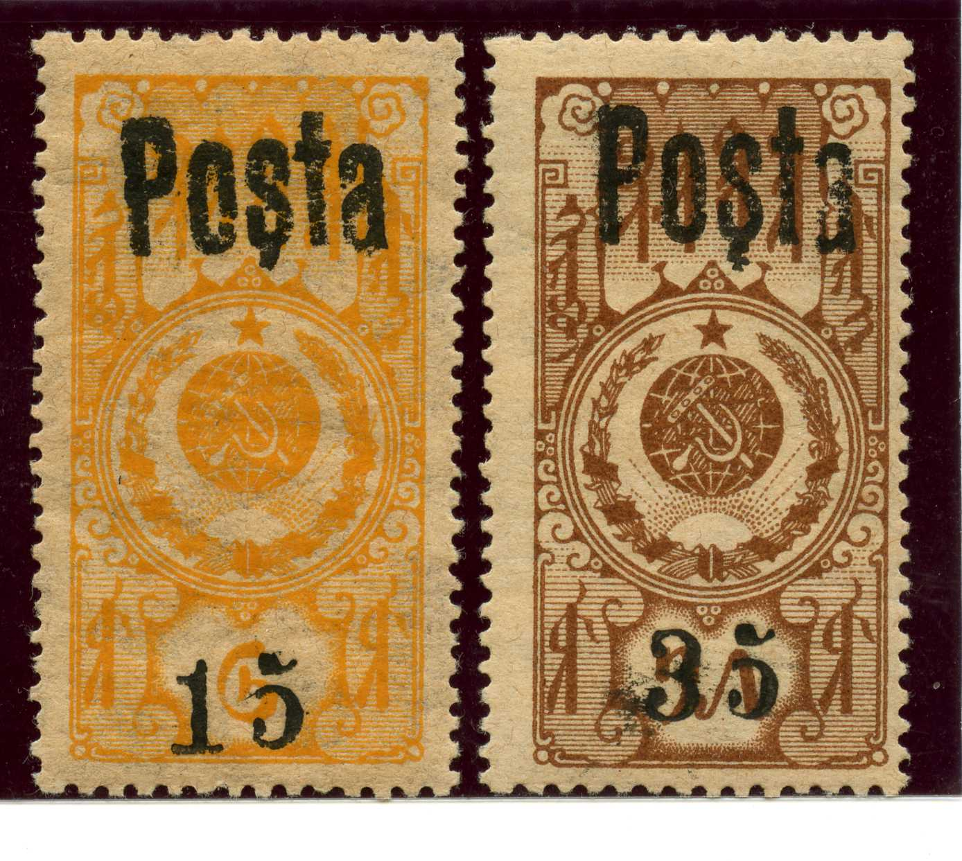 Postage stamps of Tuva, 1933. Surcharges "Posta" and new values. Scott #39-44